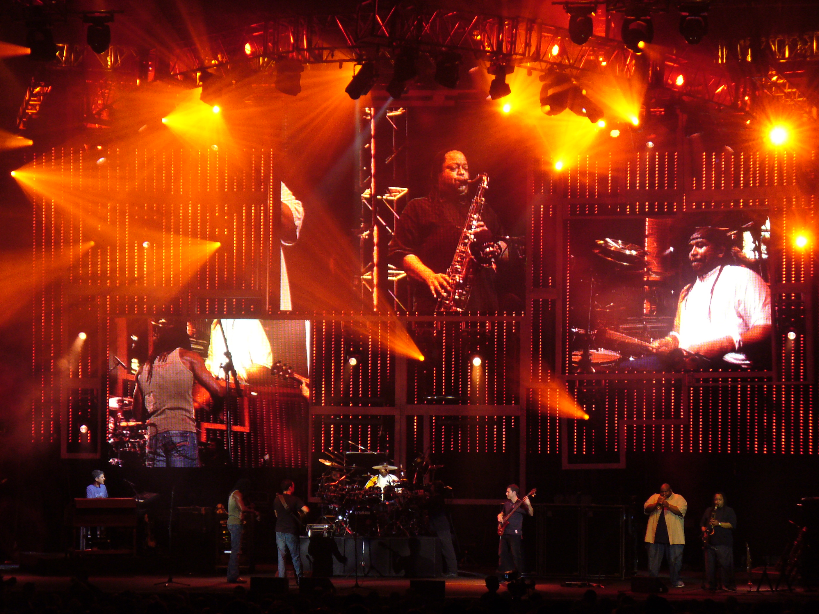 Dave Matthews Band on 2006 Summer Tour during "Last Stop" in Scranton, PA.